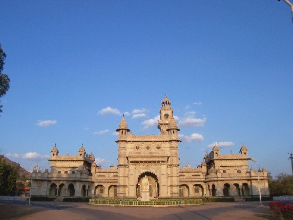 ajmer